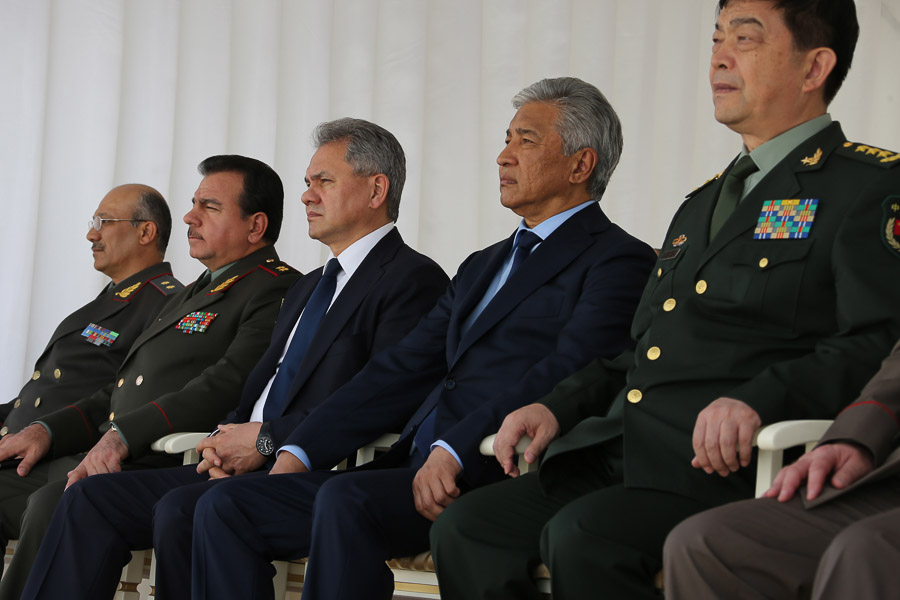 The Defense Ministers of China, Kyrgyzstan, Tajikistan, Russia, Kazakhstan, and Uzbekistan during a festival of Military Massed Bands